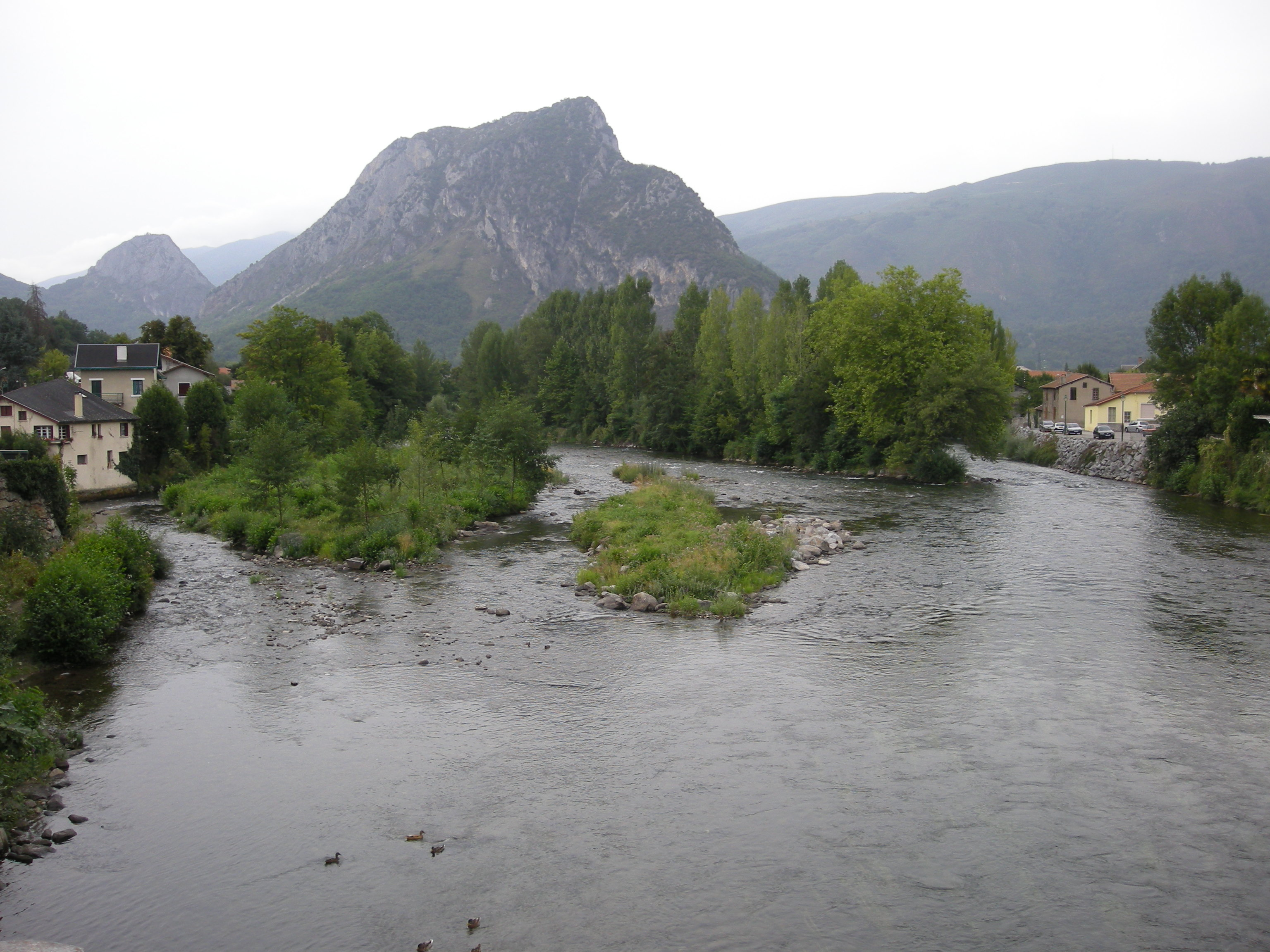 Ariège River in Tarascon-sur-Ariège (Ariège, France)